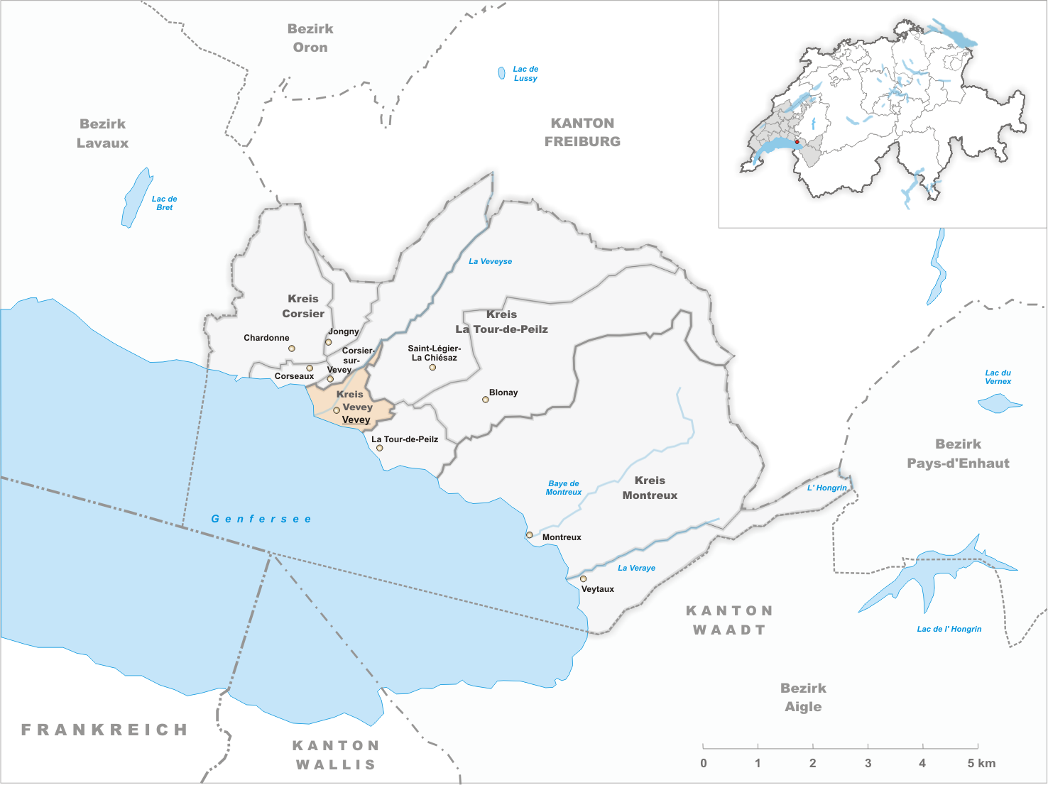 Municipality Vevey